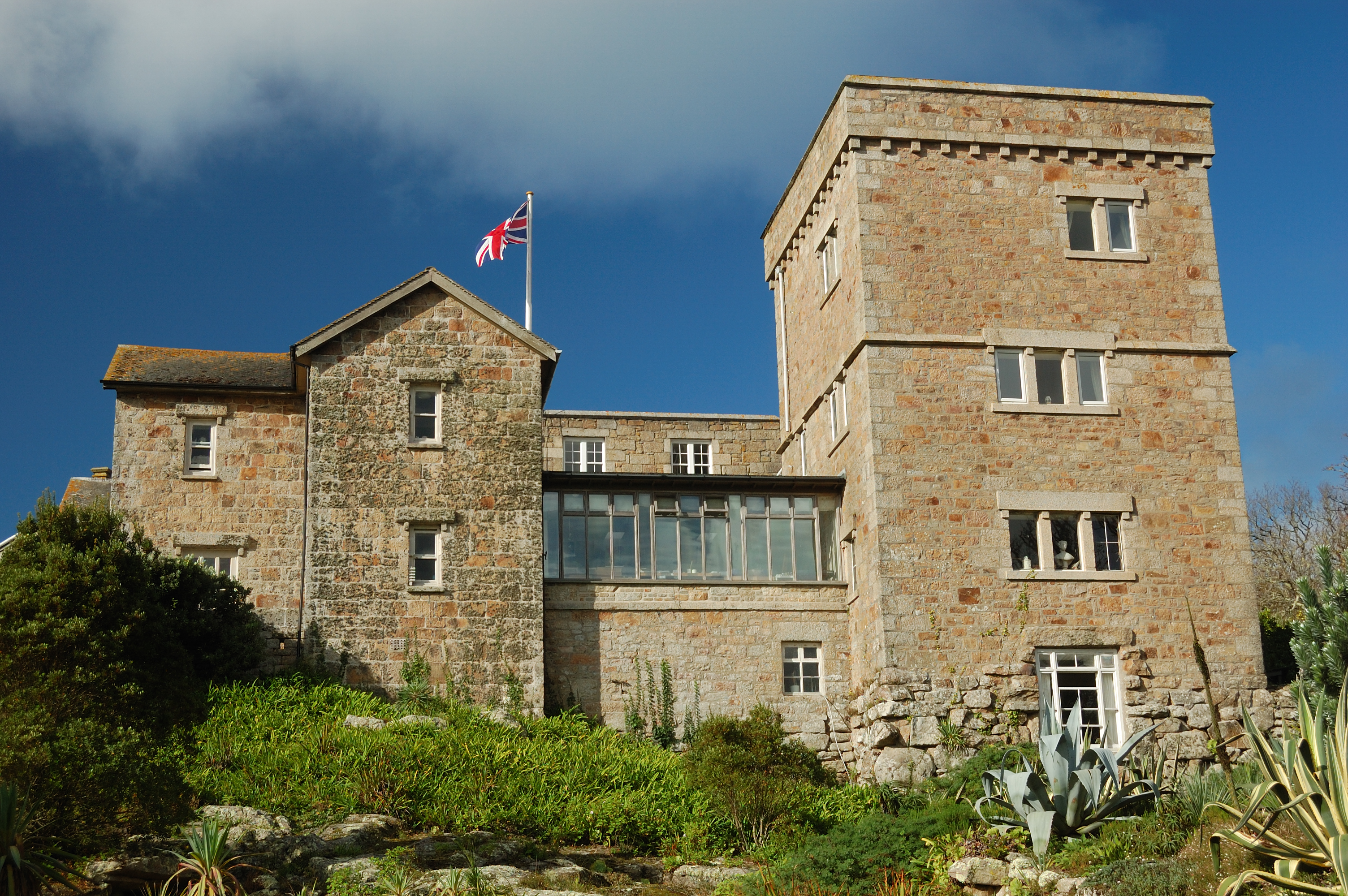 Tresco Abbey, Isles of Scilly, Cornwall, showing the tower added in 1891